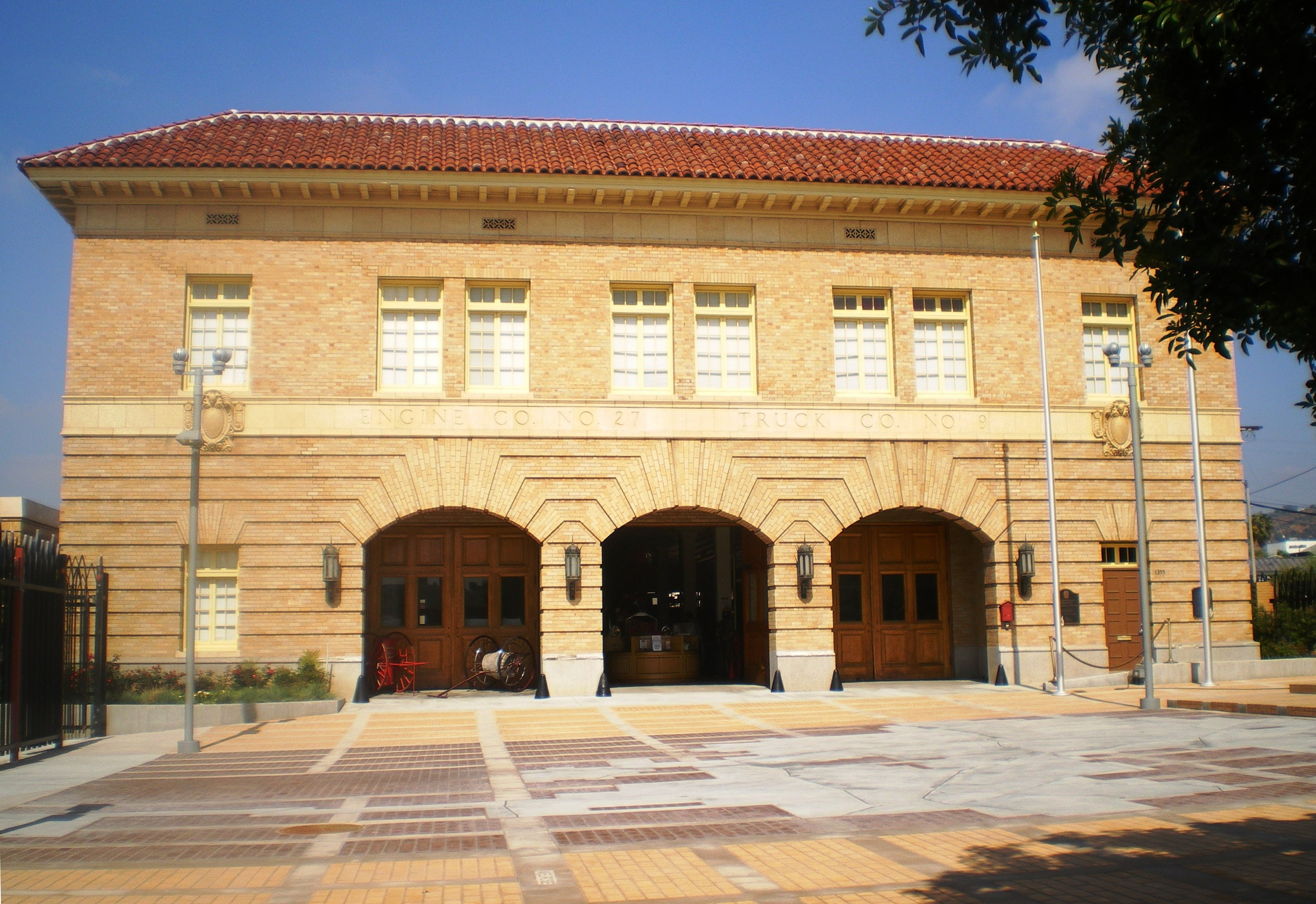 The Old Engine Co. No. 27—Los Angeles Fire Department Museum and Memorial — at 1355 North Cahuenga Boulevard, in Hollywood (Los Angeles), California. Built in the Neo-Renaissance style in 1930. A Los Angeles Historic-Cultural Monument and on the National Register of Historic Places.